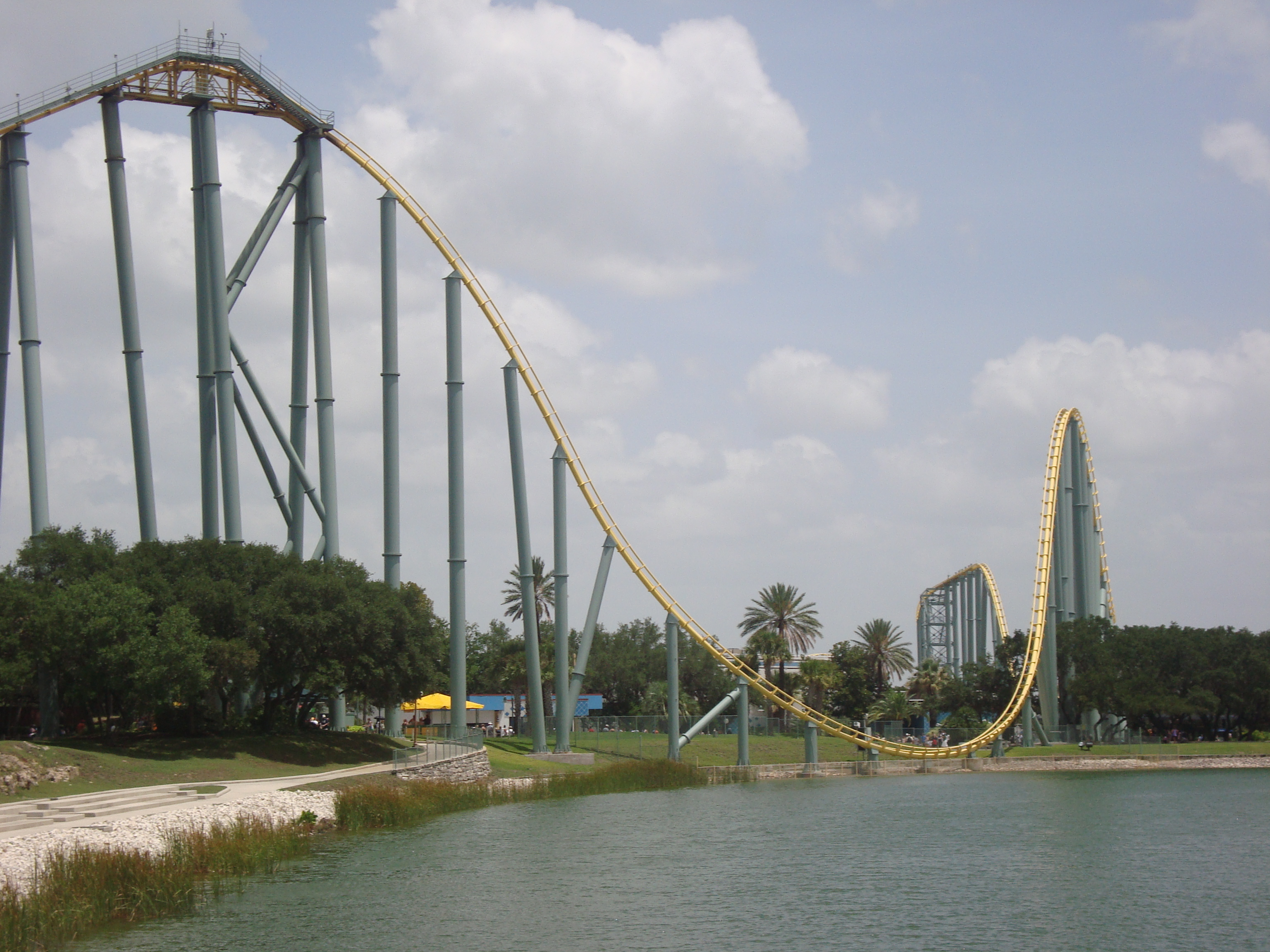 Image taken from the steel eel.